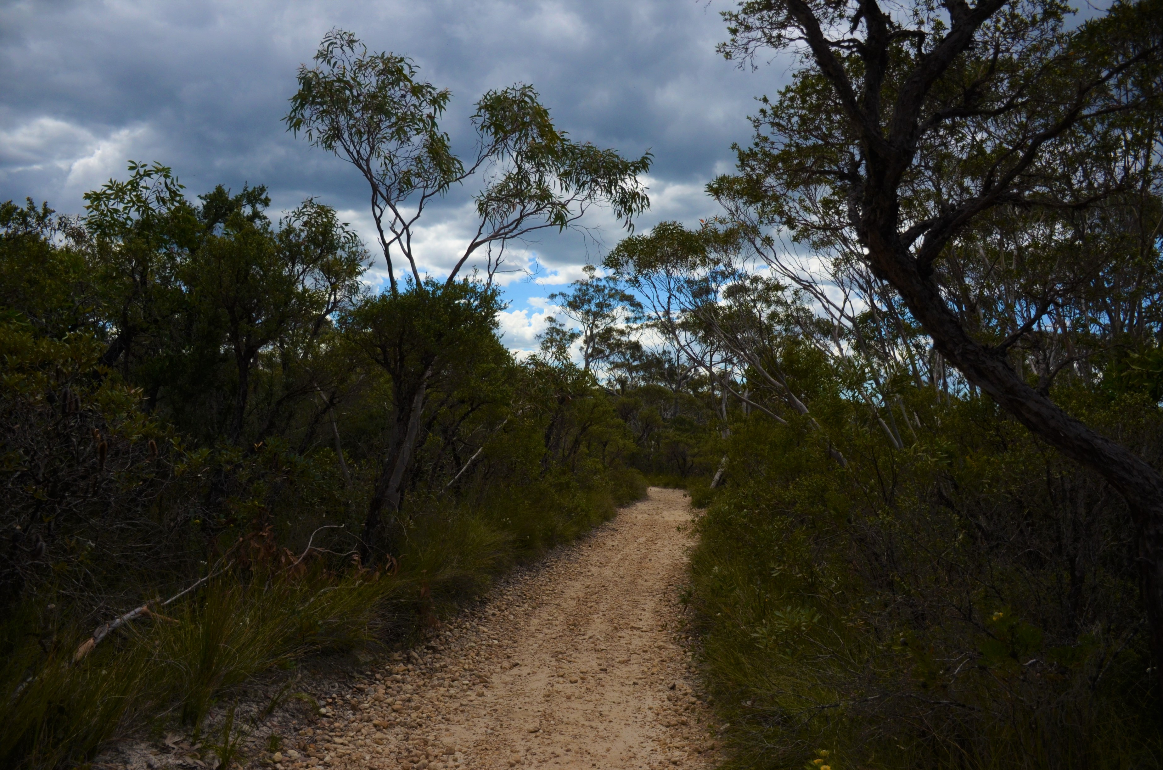 path in cambewarra